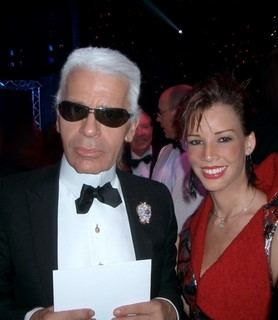 Karl Lagerfeld and Bolivian Designer Monica Moss, at the Red Cross Ball in Monaco, August 2005. photo taken by Christoph Schaefer. Karl Lagerfeld and Bolivian Designer Monica Moss at the Red Cross Ball in Monaco, August 2005. Photo taken by Christoph Schaefer